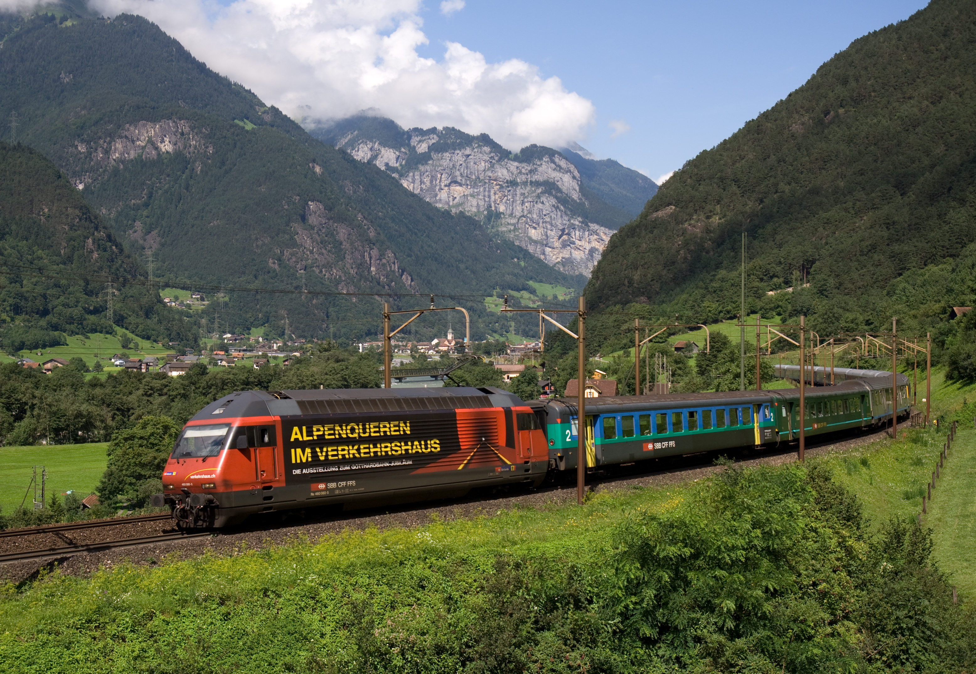 SBB Re 460 with a Cisalpino Eurocity train near Erstfeld. The text translates to "Crossing the alps in the Swiss Transportation Museum".